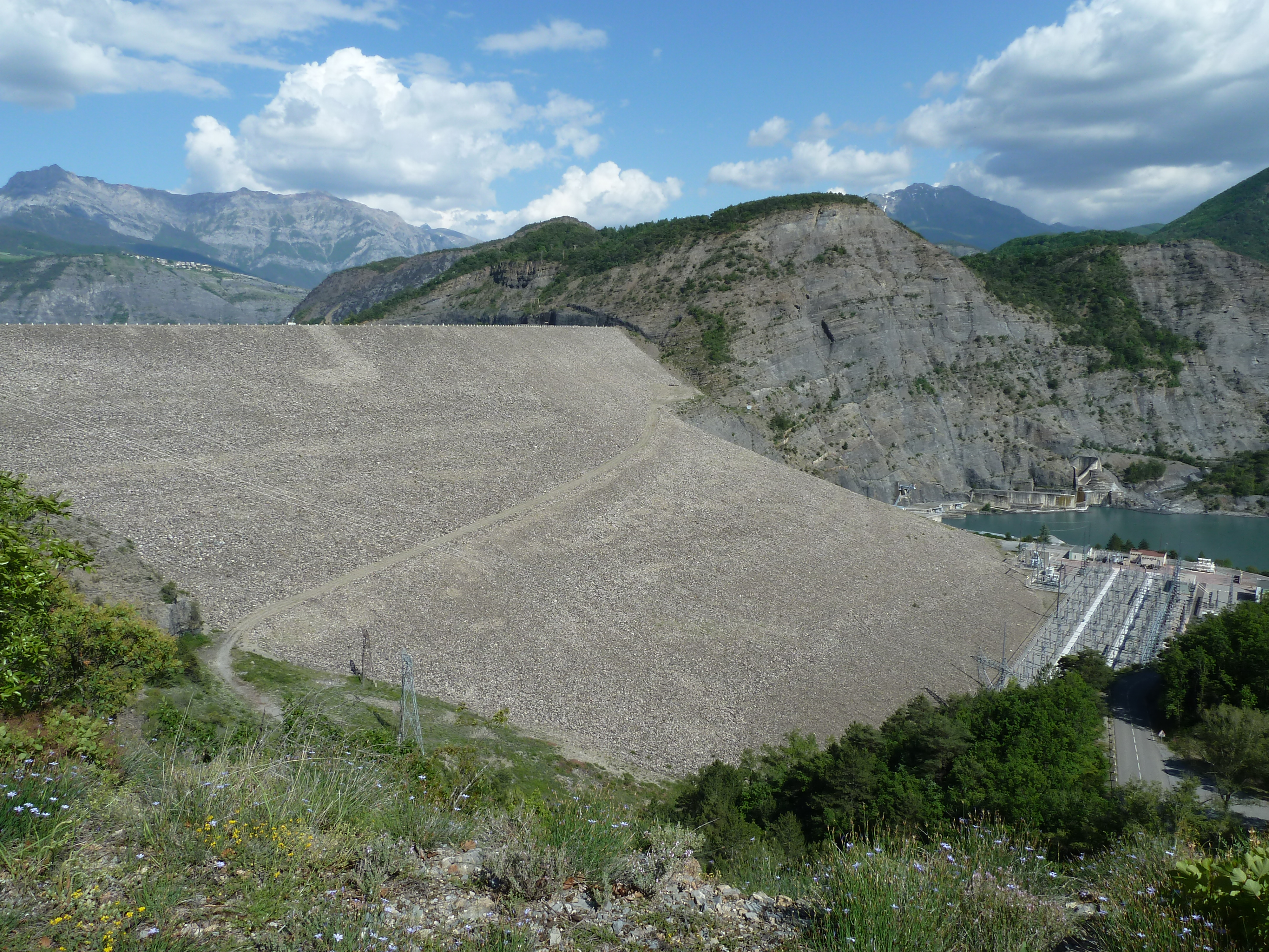 Dam of Lac de Serre-Ponçon